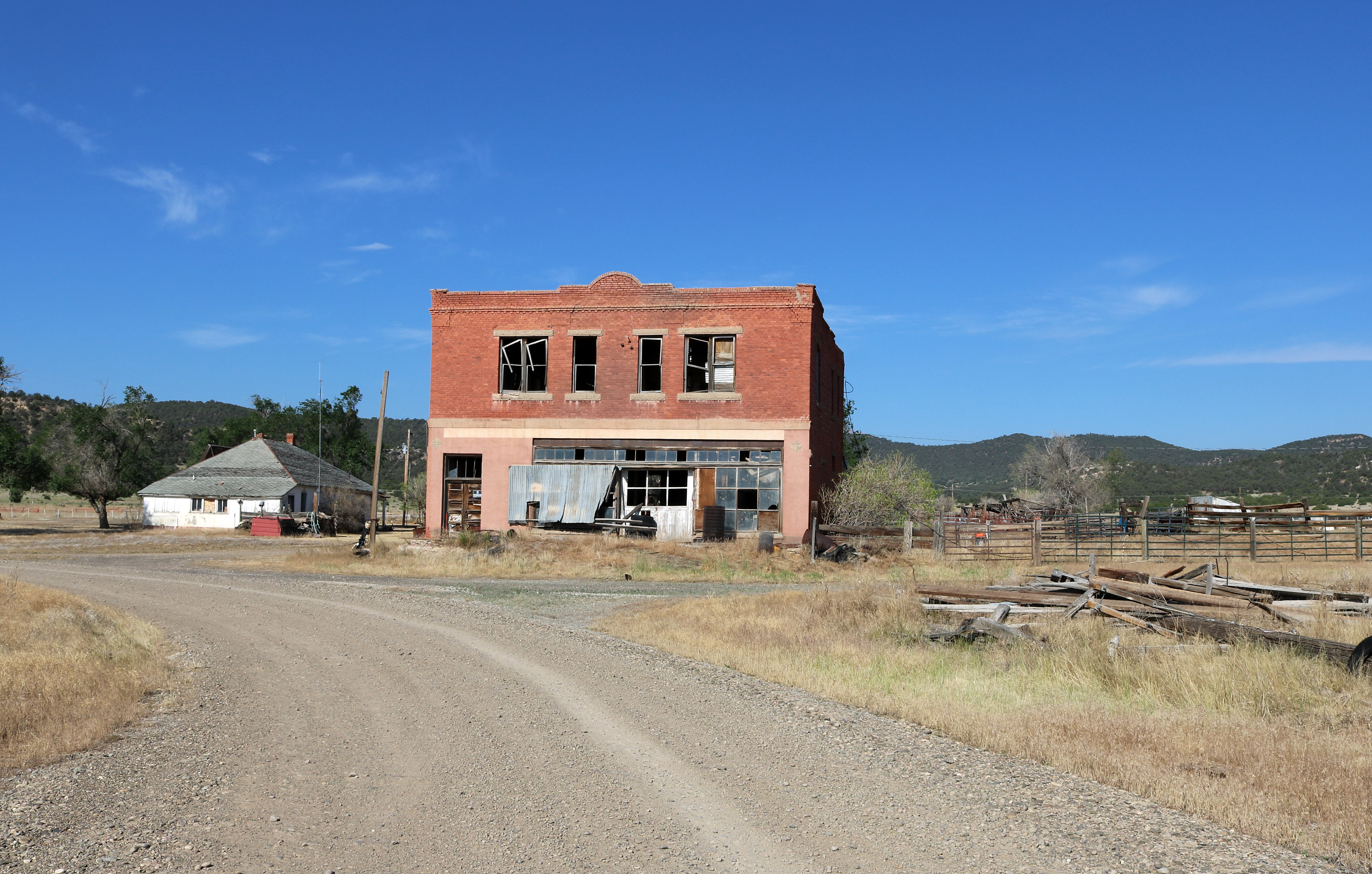 A view of Rugby, Colorado in Las Animas County. The view is towards the southwest. The road is Las Animas County Road 66.